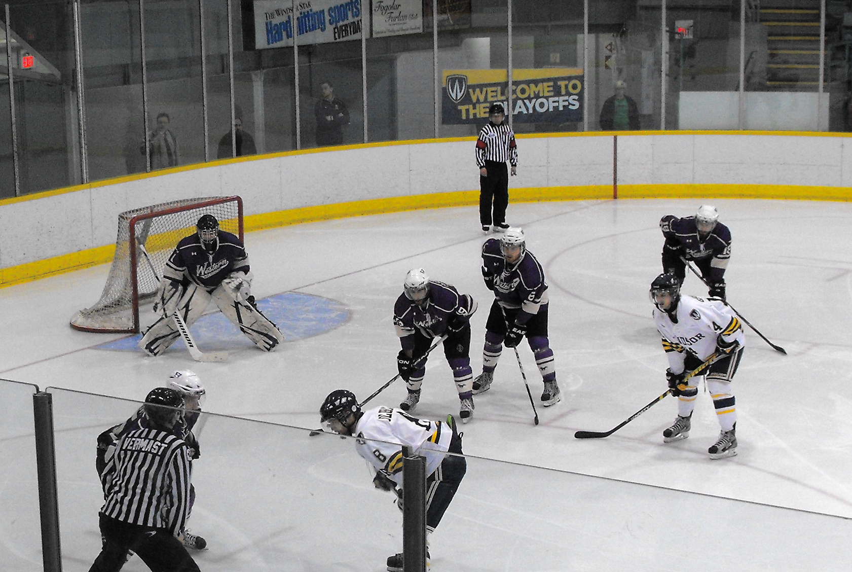 Photo taken by Devan Mighton of CIS men's hockey.